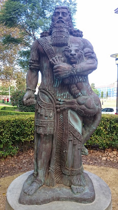 Gilgamesh Statue Sydney University